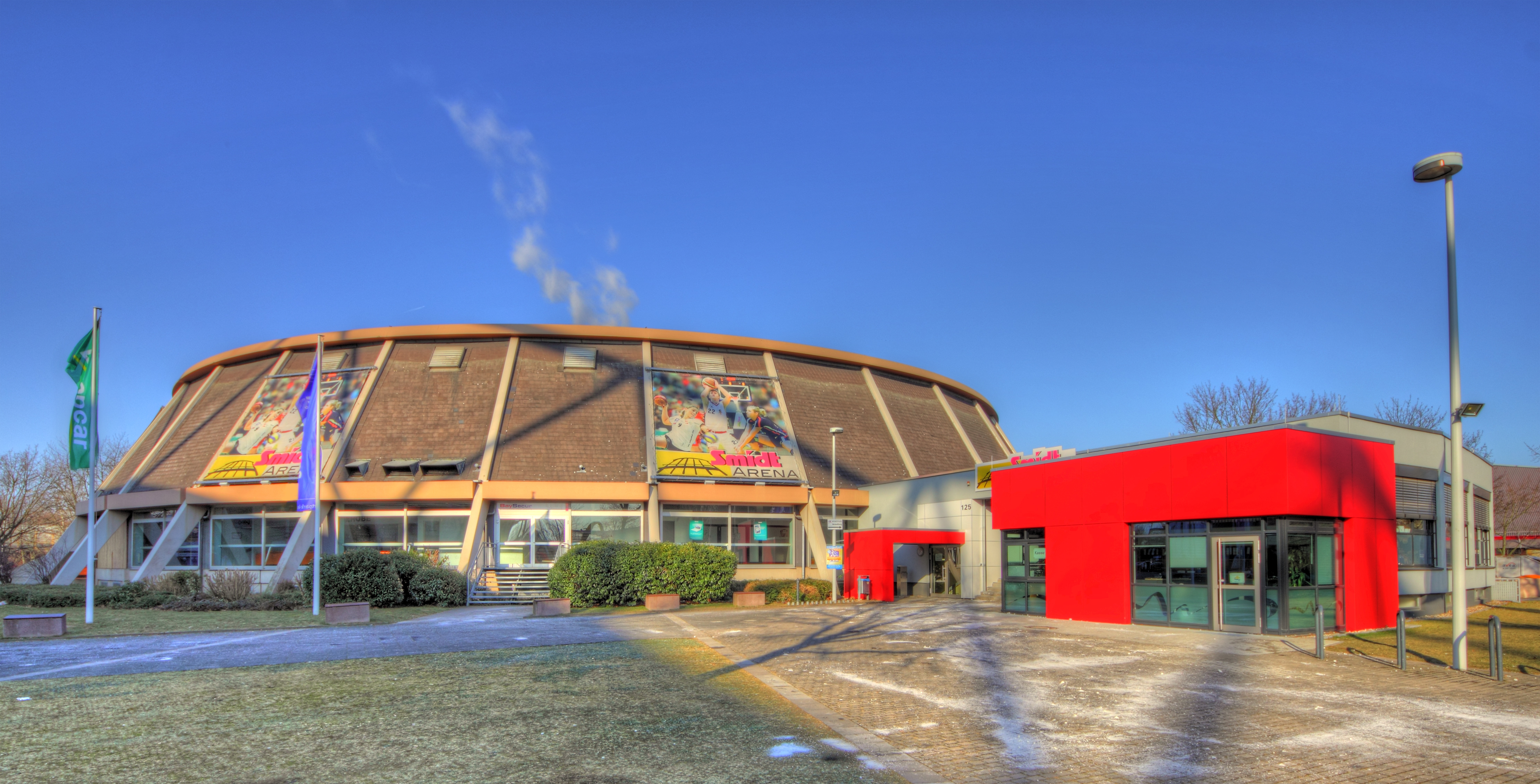 SMIDT-Arena (former Wilhelm Dopatka Hall) in Leverkusen